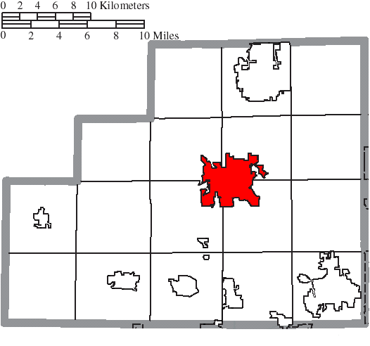 Map of the municipal and township boundaries of Medina County, Ohio, United States, as of the 2000 census, with the location of the city of Medina highlighted. Township borders are shown only in unincorporated areas in order to differentiate incorporated and unincorporated areas more clearly.